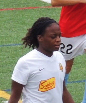 2013-07-04; Jodi-Ann Robinson in Chicago Red Stars vs Western New York Flash